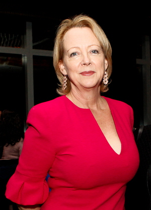 Lynda Gratton at Financial Times and Goldmans Sachs Business Book of the Year Award 2012